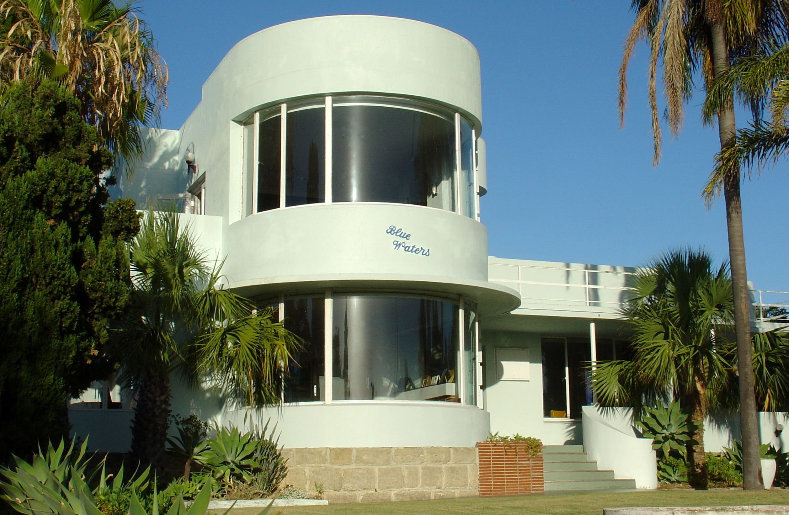 Blue Waters, art deco residence in the Perth suburb of Como, Western Australia